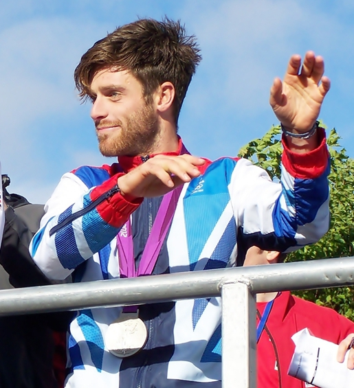 Scottish athletes from Team GB London 2012 Olympics and Paralympics gather at Kelvingrove Museum in Glasgow for the Homecoming Parade to George Square